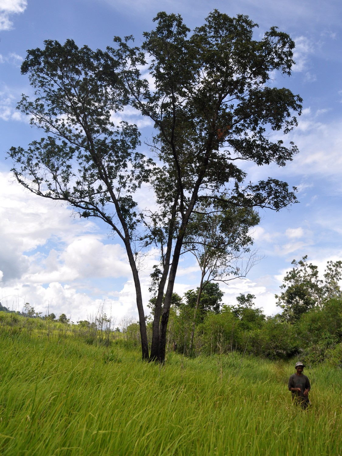 Schima wallichii at alang-alang grassland. From Ketapang, West Kalimantan, Indonesia.